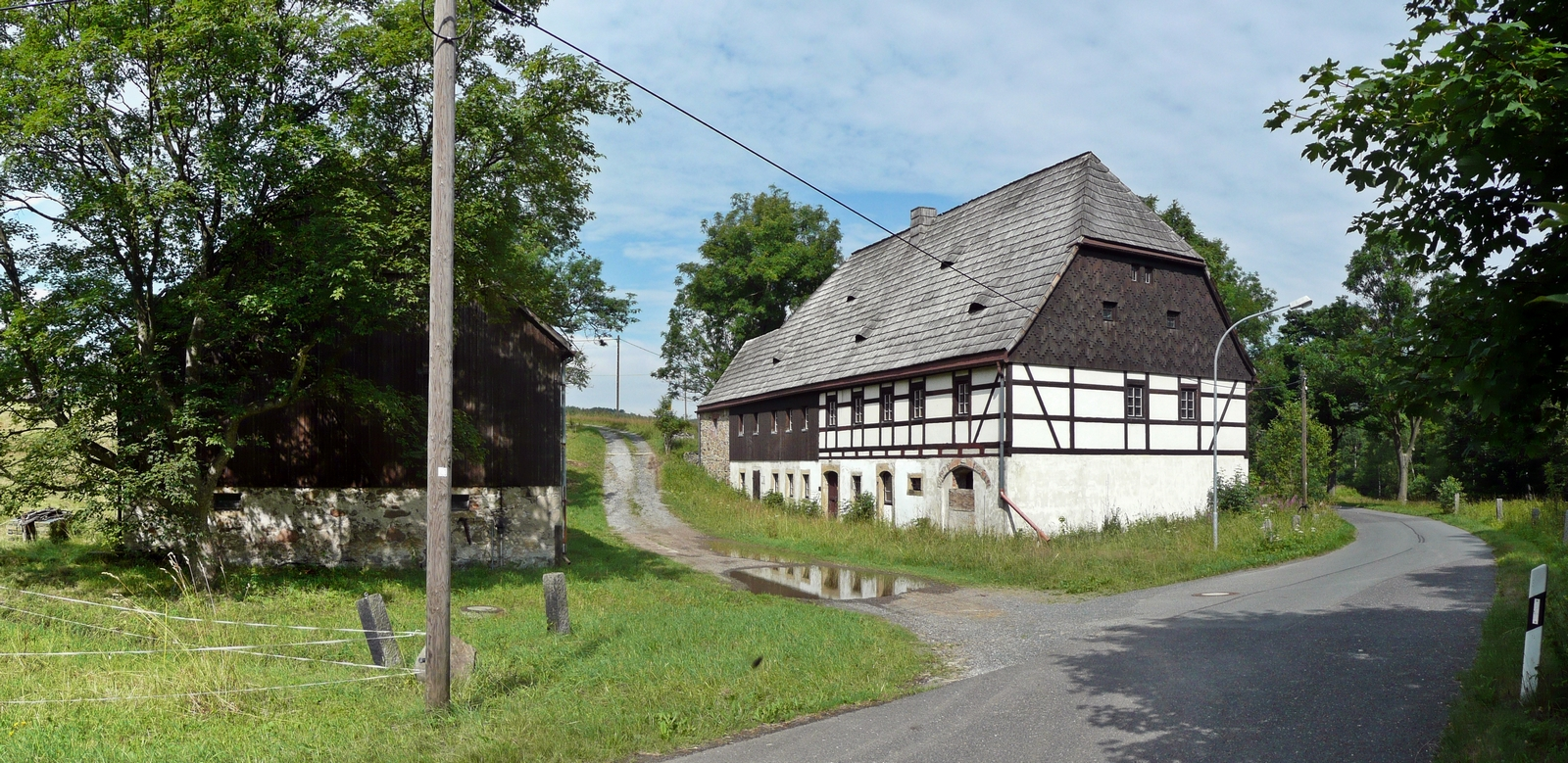 This photo shows the "Hartmannmühle", a former water-mill, in Müglitz near the german-czech border in the ore mountains.